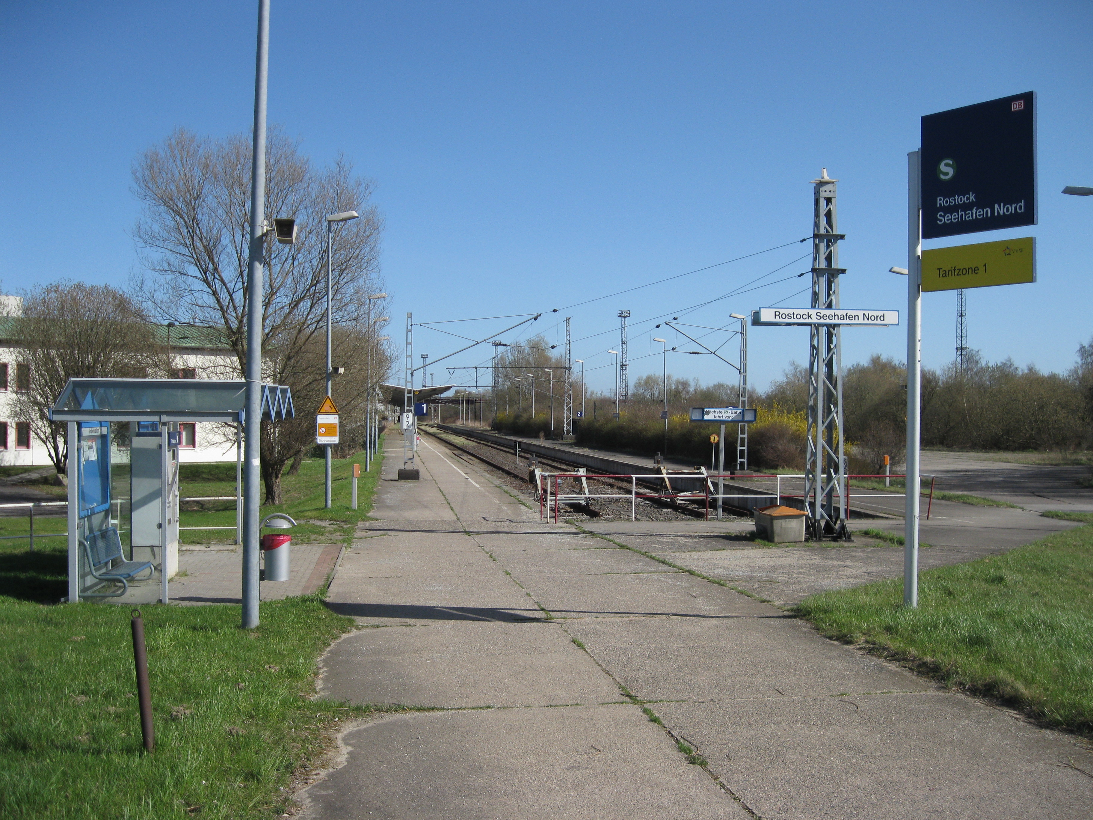 Train station Rostock Seehafen Nord, Mecklenburg-Vorpommern, Germany